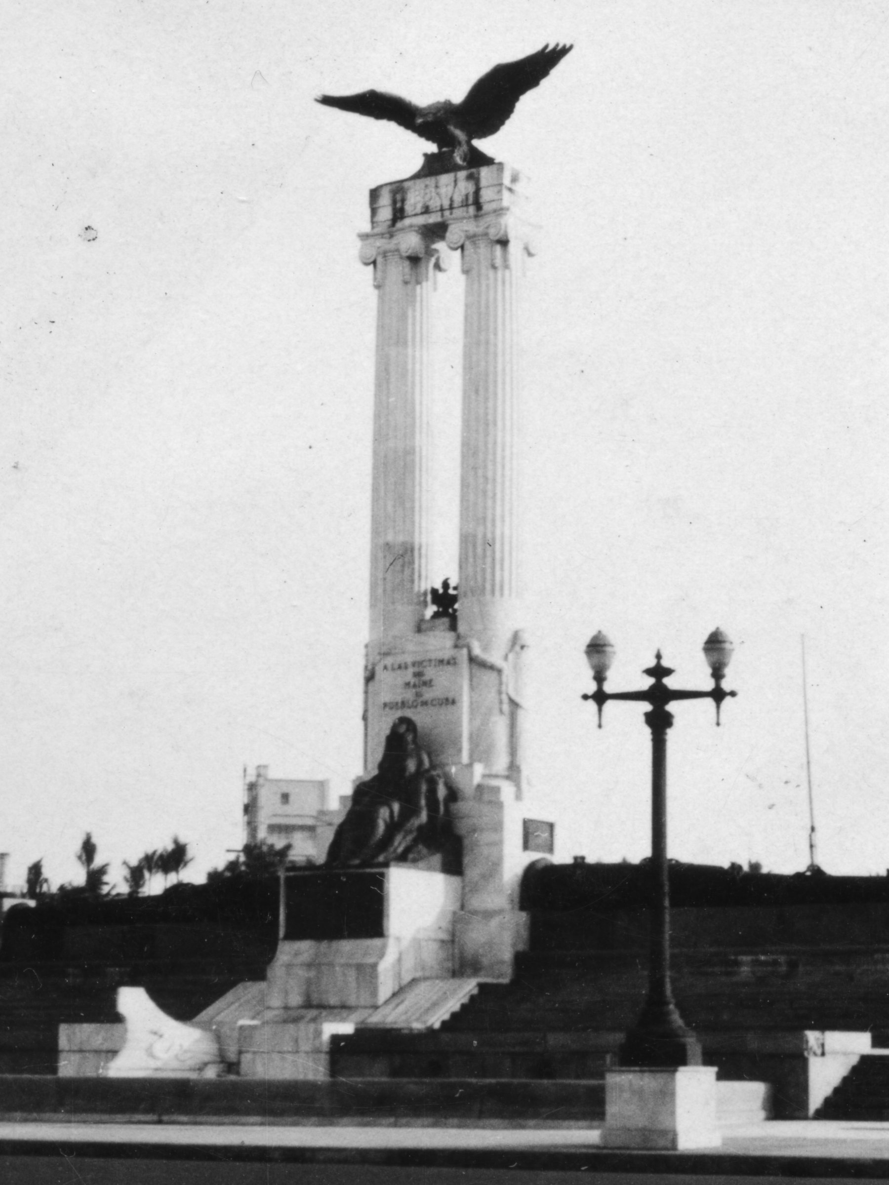 A photograph of the monument to the Maine in Havana, Cuba taken circa 1930. Taken by my father, and which I now own.